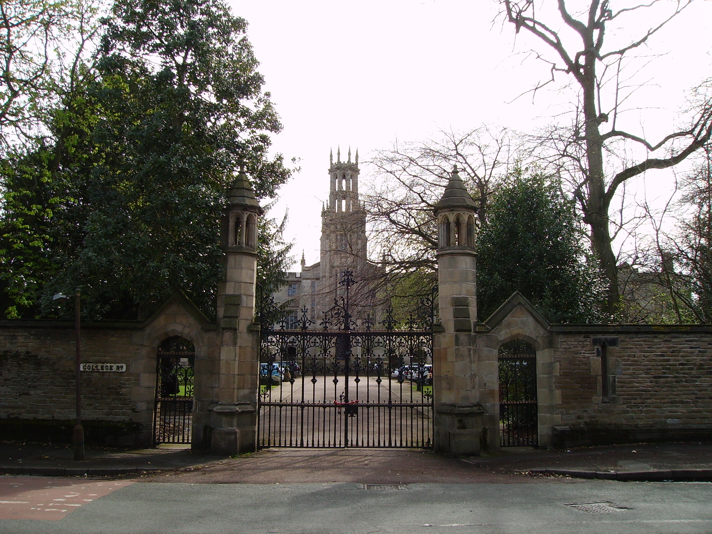 The British Muslim Heritage Centre - formerly the GMB National College